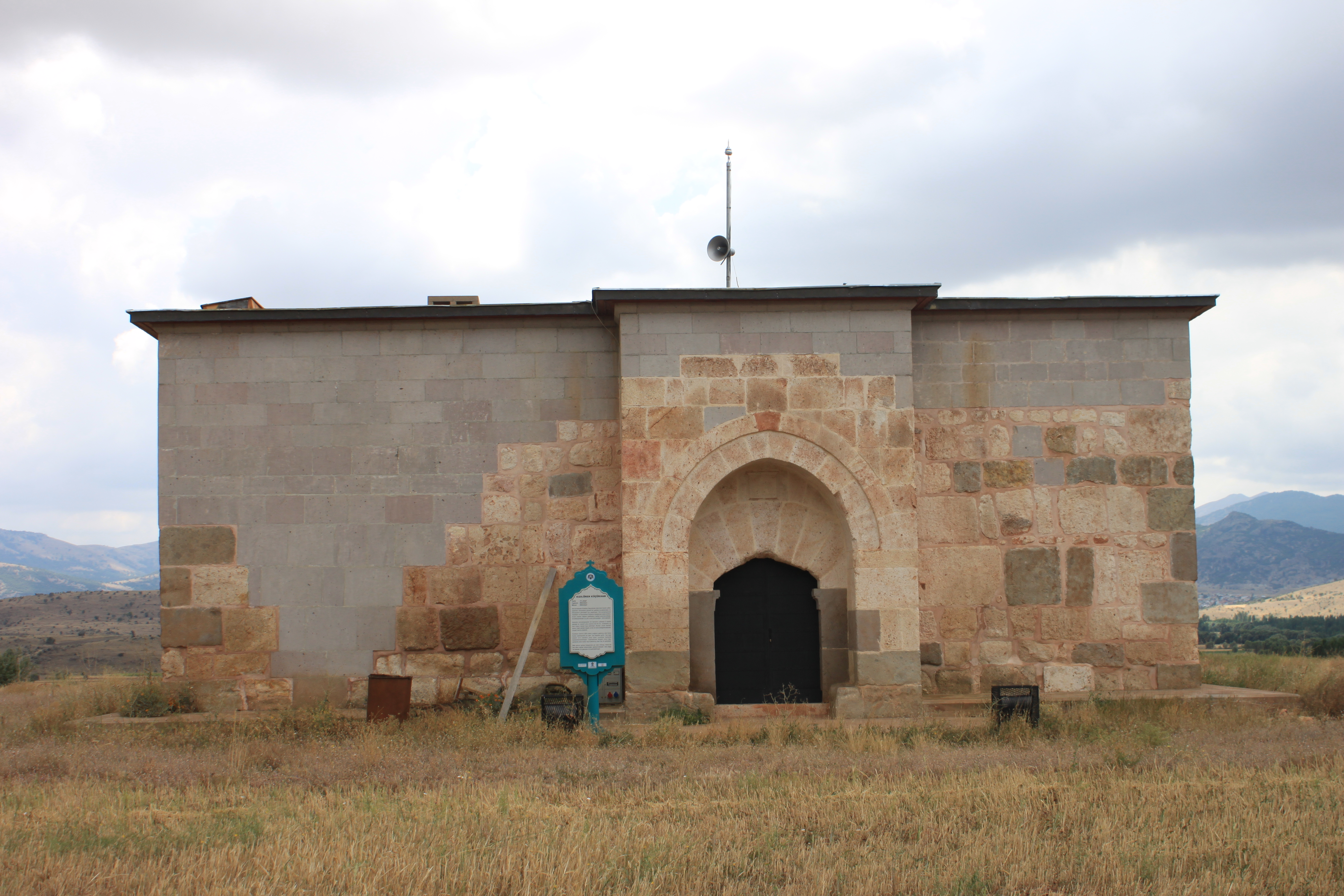 Kervansaray, Han, historical building, accommodation